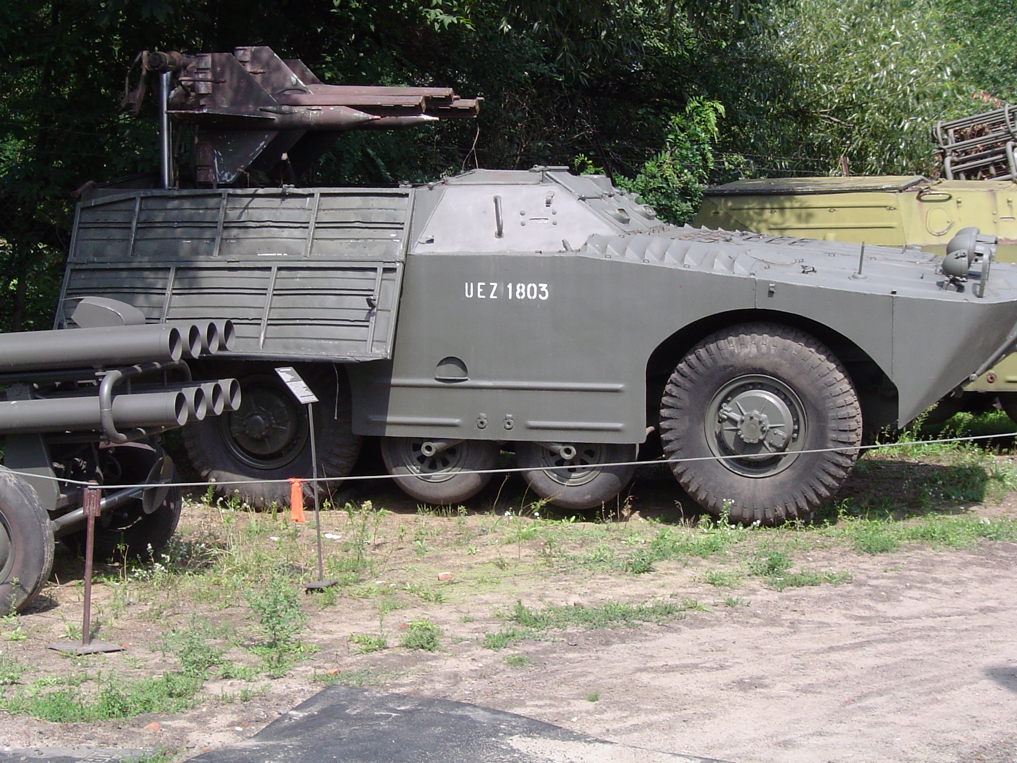 Anti-tank guided missiles on base of BRDM. Museum of Polish Military, Warsaw, Poland